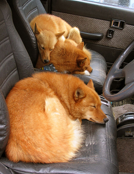 Karelo-Finnish Laikas sleeping in a car after hunting